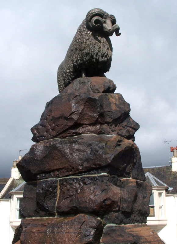 Taken and donated by user:Guinnog